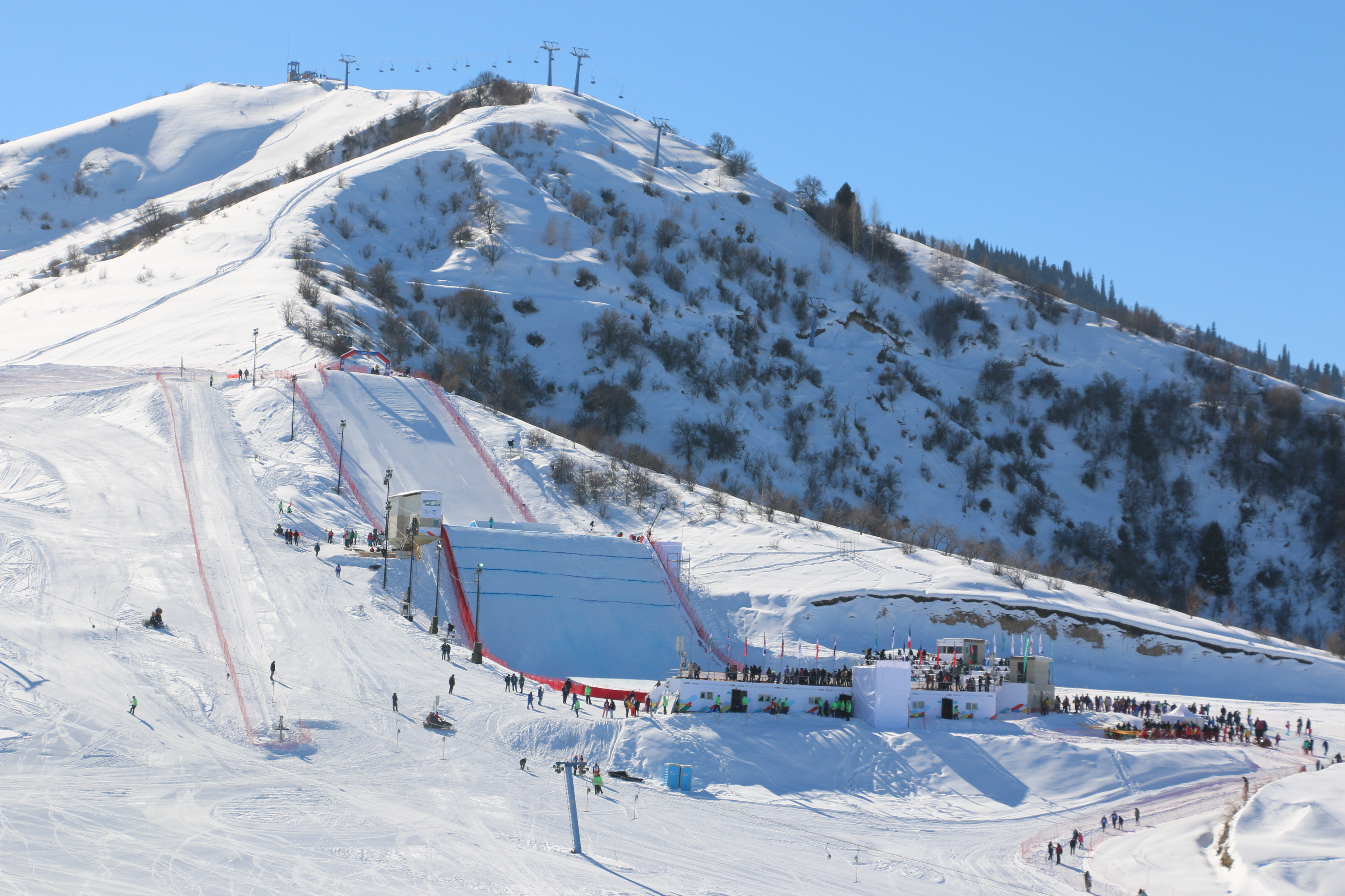 Universiade 2017. Tabagan